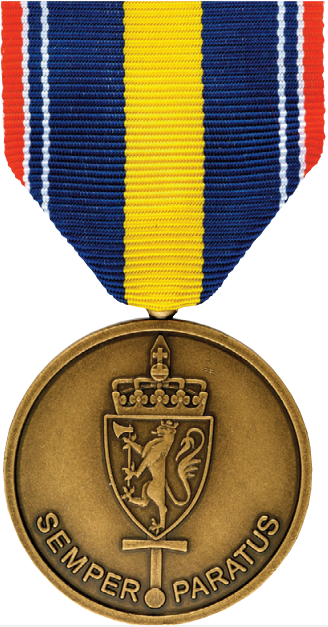 Norwegian Armed Forces Medal for Defense Operations Abroad - Bosnia-Herzegovina